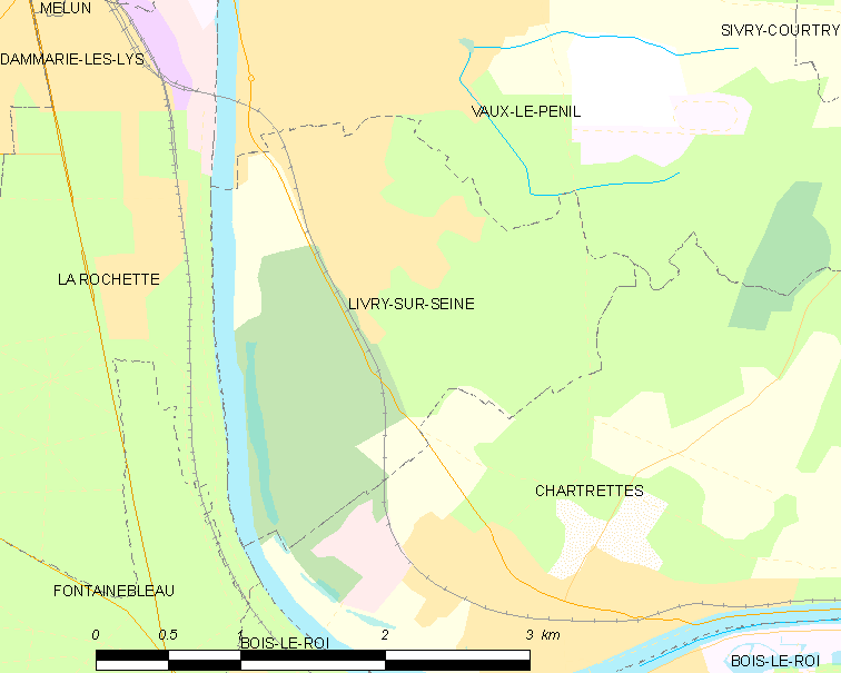 Map of French municipality Livry-sur-Seine